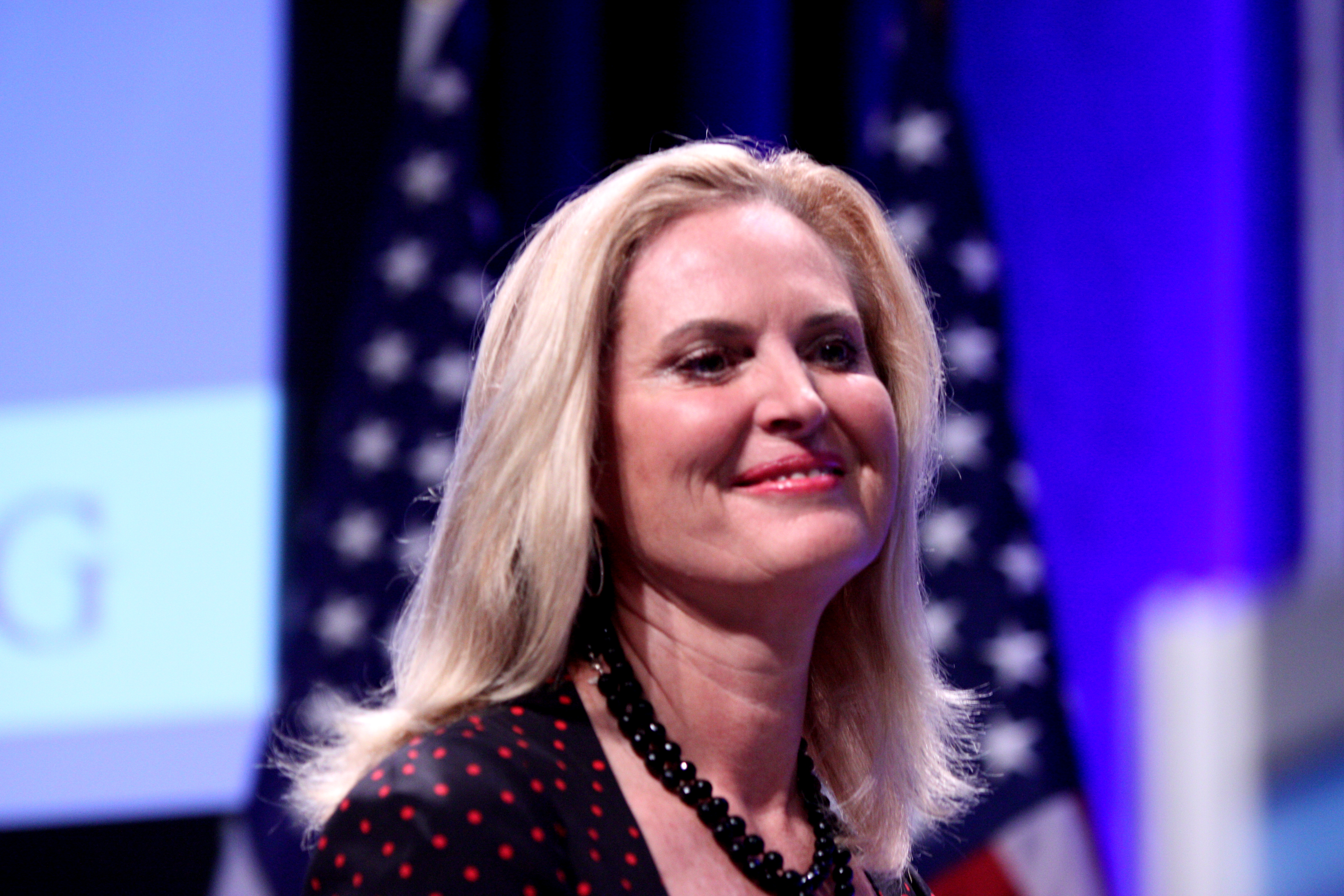 Ann Romney after speaking at CPAC in 2011